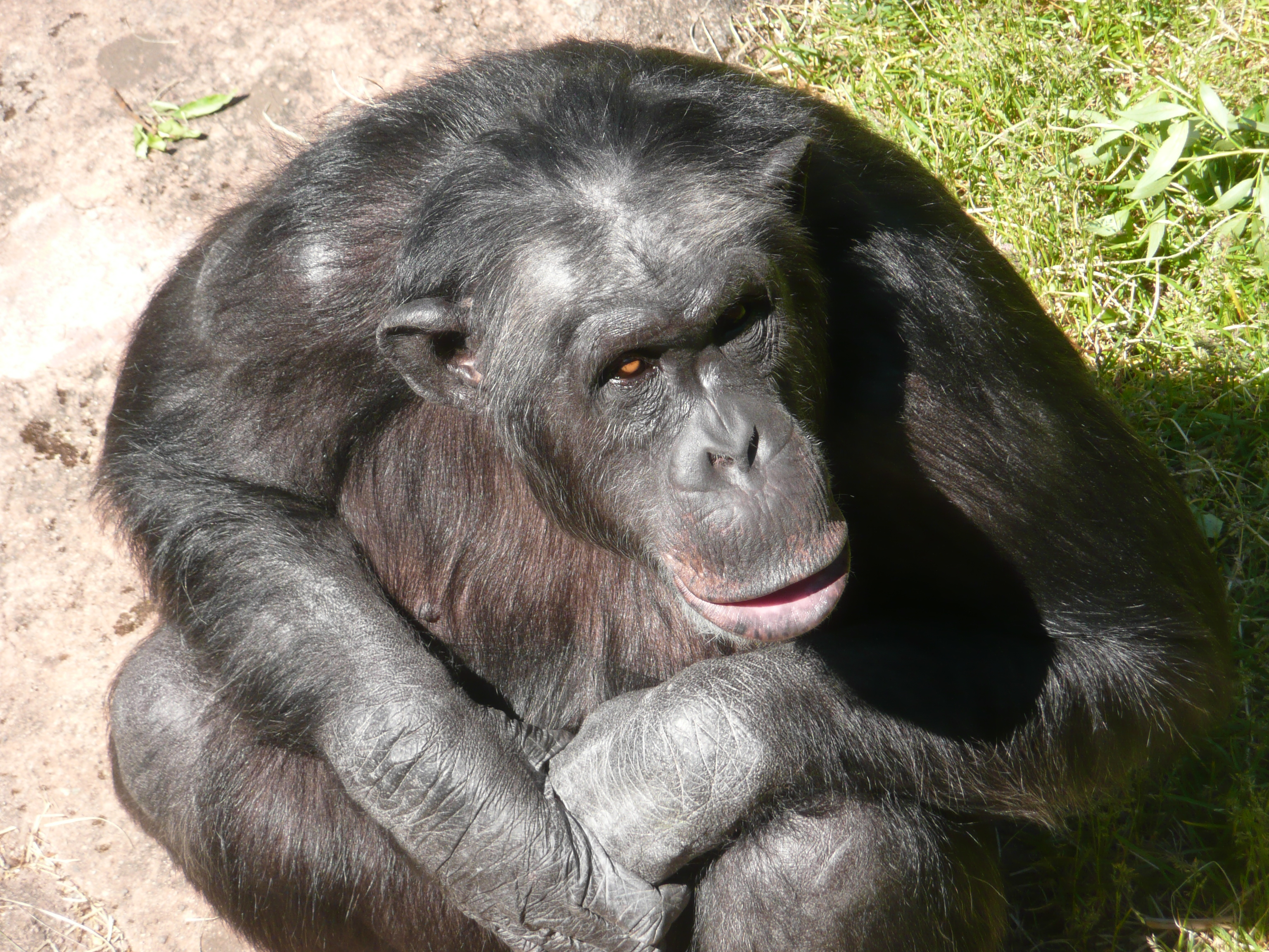 Santino, the rock-throwing chimp, at Furuvik Zoo, Gävle, Sweden